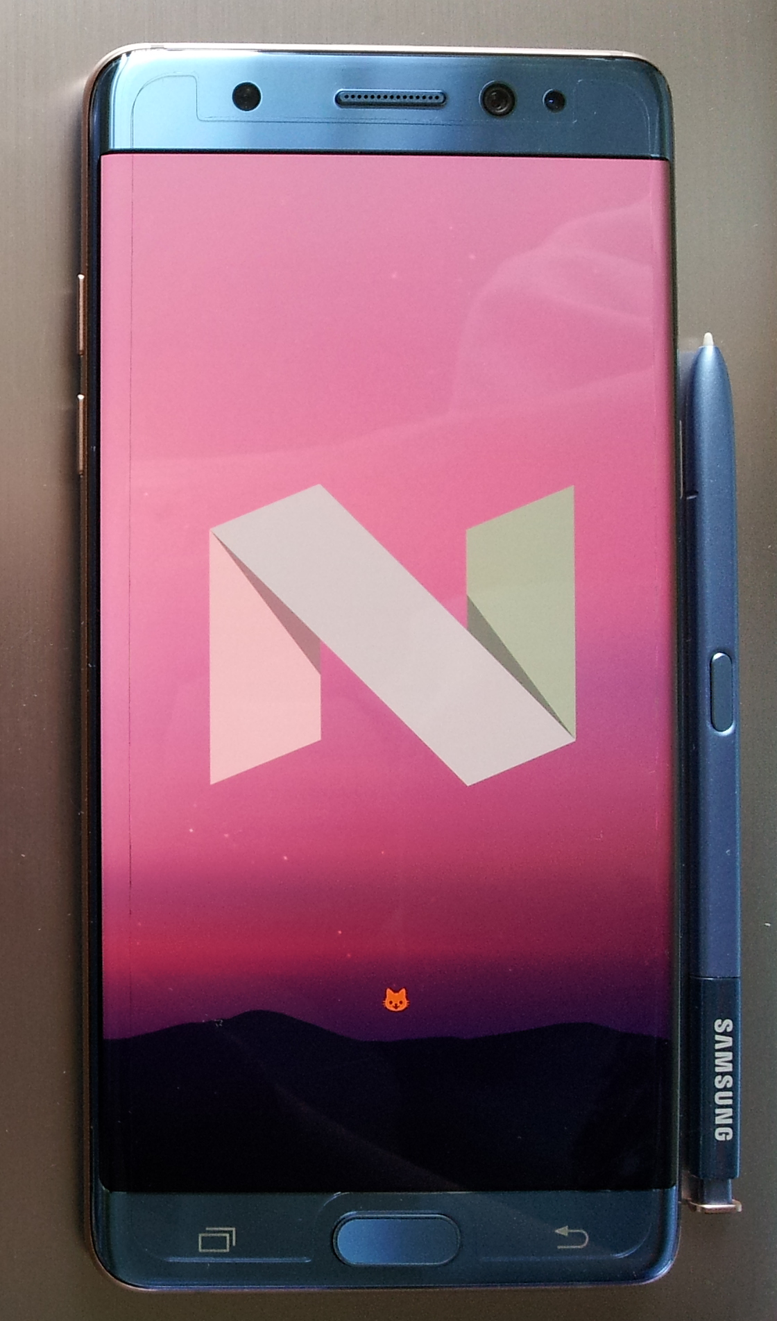 Samsung Galaxy Note 7 (with Android 7.0 Nougat)